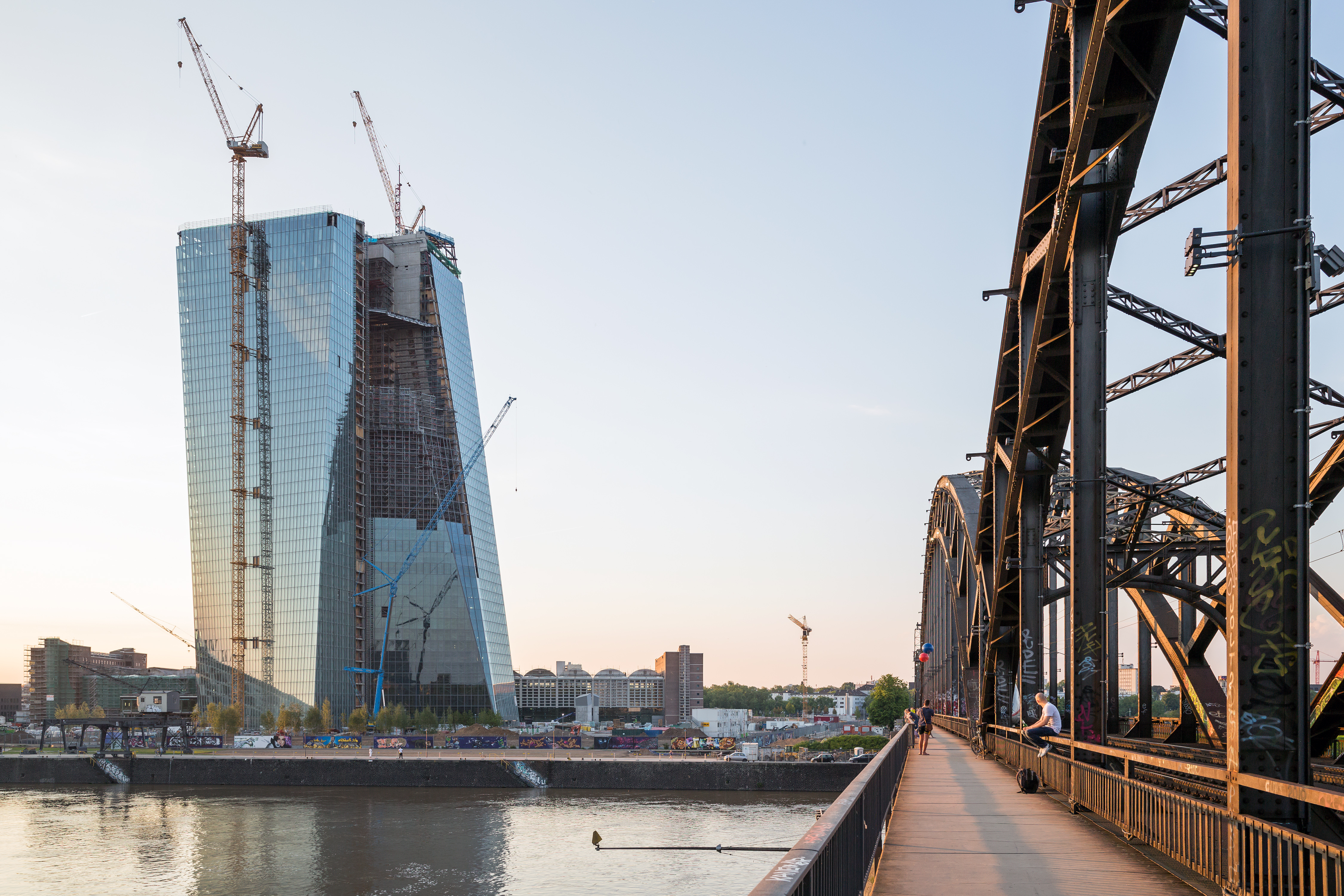 Frankfurt on the Main: European Central Bank Headquarters as seen from the southeast